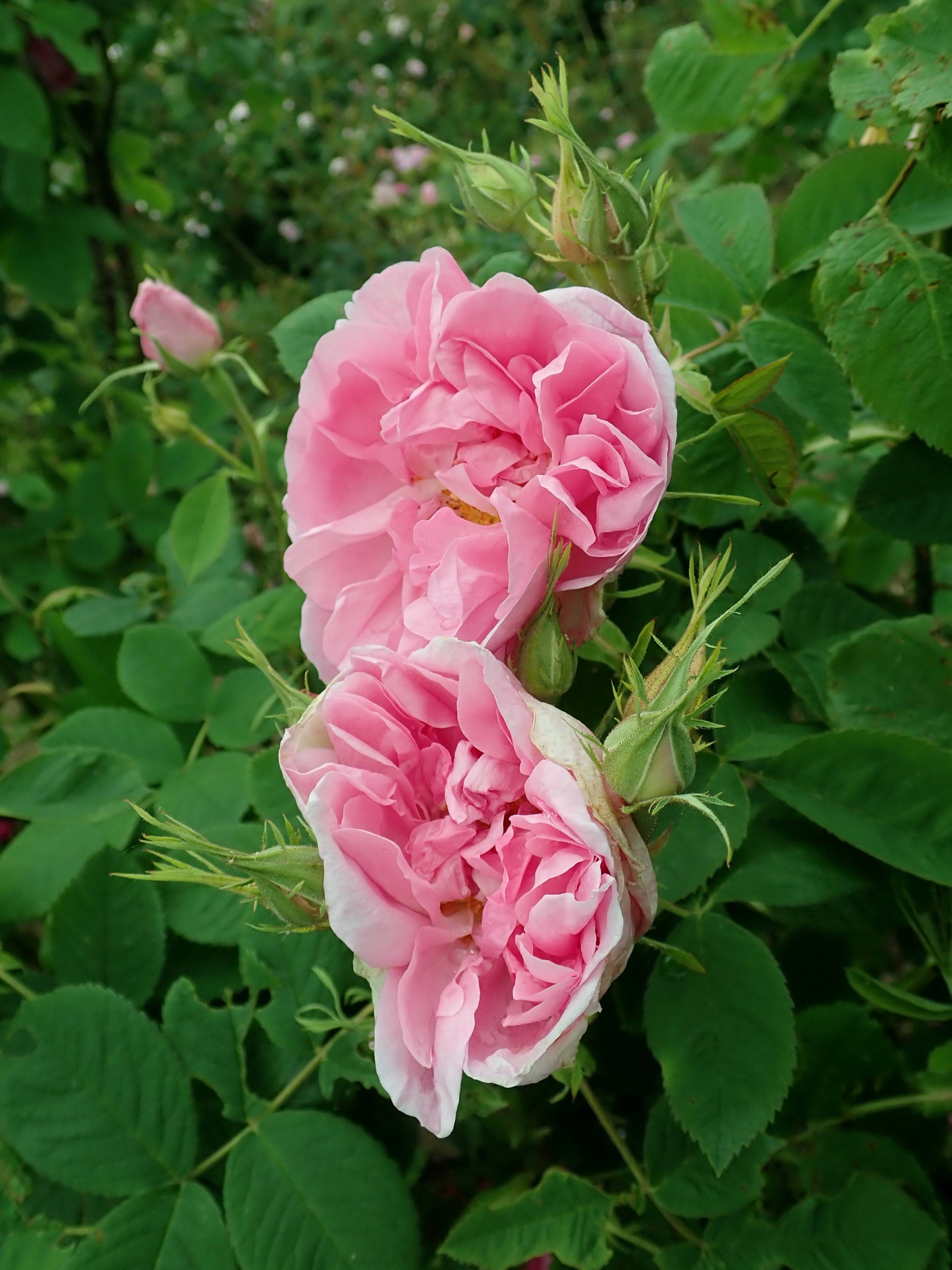 Rosa × damascena Mill. var. semperflorens (Loisel. et Michel) Rowley, Europa-Rosarium Sangerhausen.